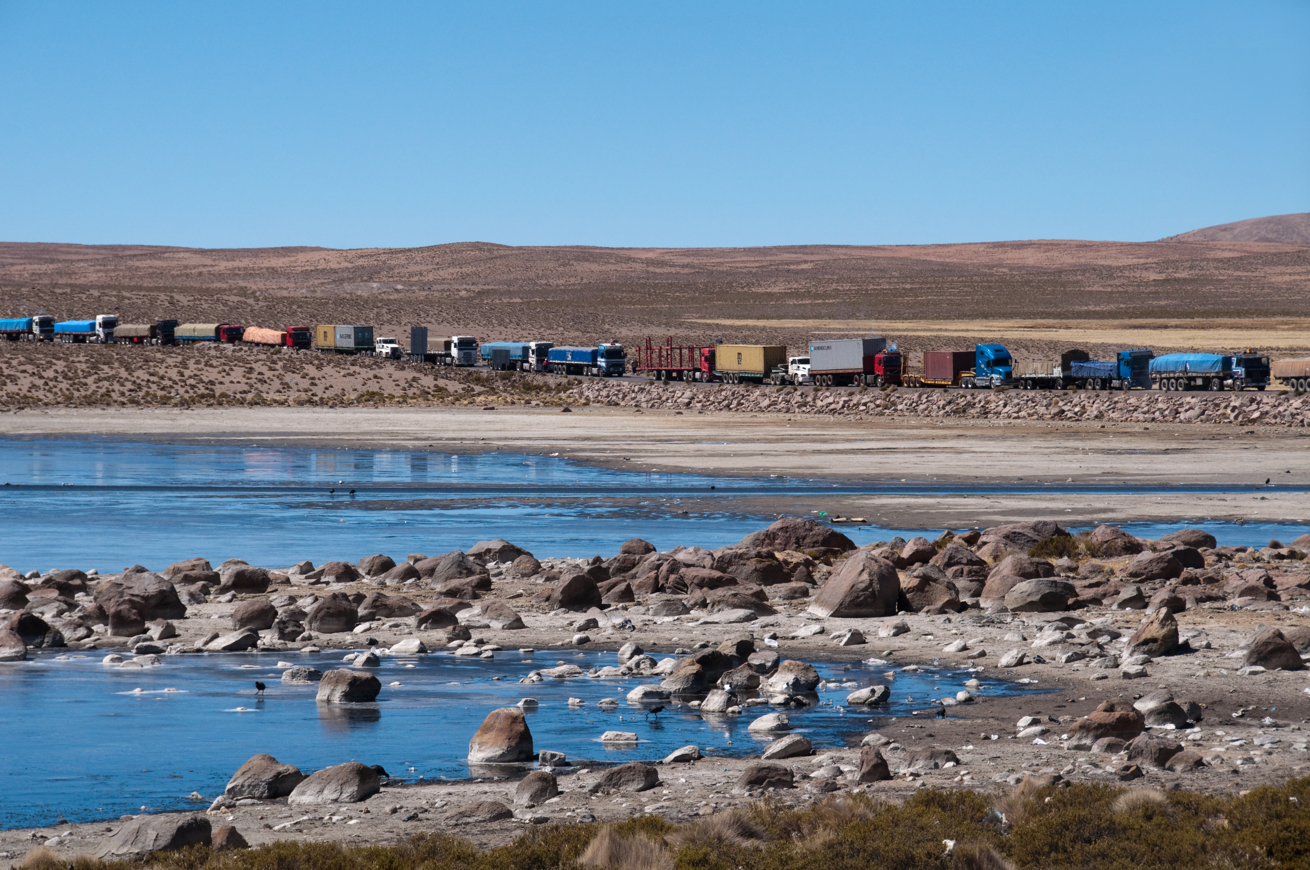 Trucks wait in Chungara–Tambo Quemado (Spanish: Paso Chungara–Tambo Quemado) mountain pass through the Cordillera Occidental of the Andes along the border between Chile and Bolivia. Chungara–Tambo Quemado is one of the principal Chile-Bolivia passes in the central Andes as it connects La Paz with its nearest seaport Arica.